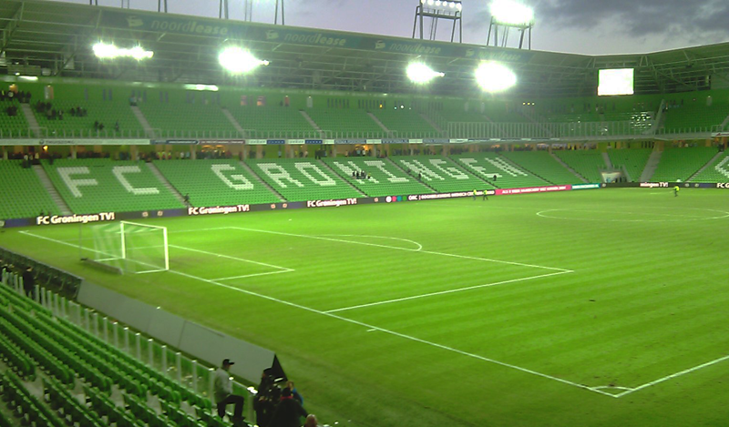 Euroborg, after the match FC Groningen - AZ on 12-12-2010